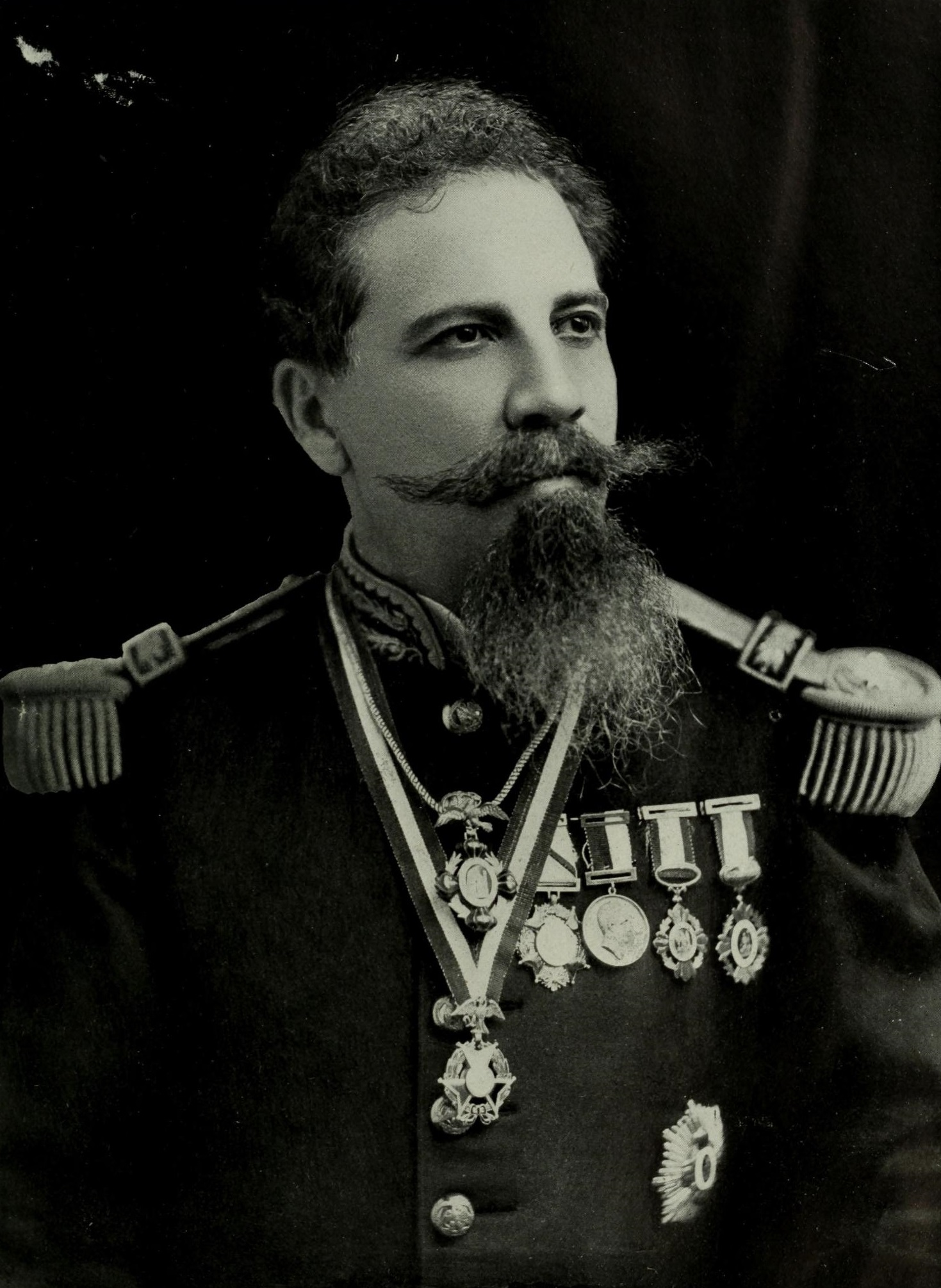 Portrait of General Bernardo Reyes